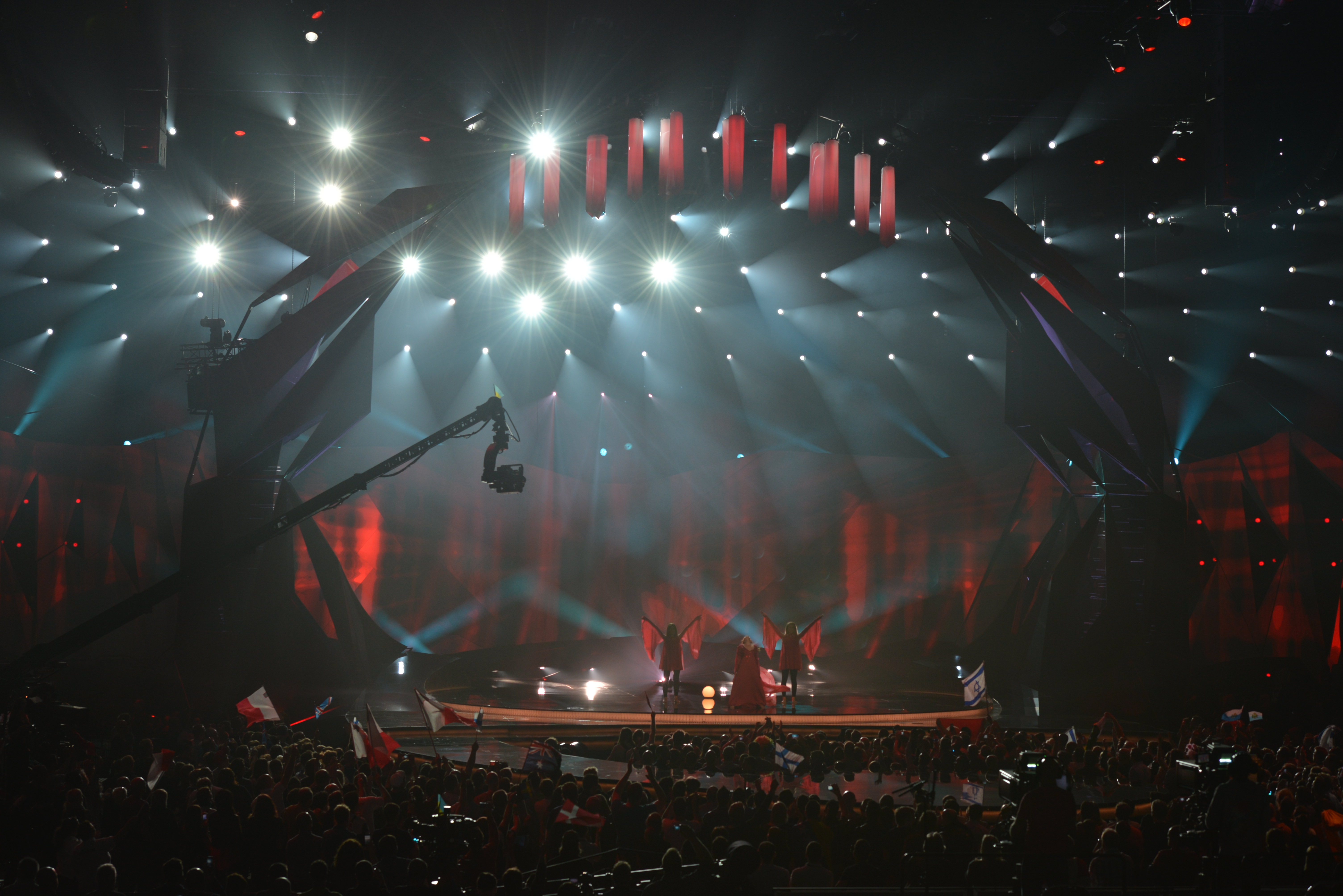 Valentina Monetta representing San Marino with the song "Crisalide (Vola)" during the second dress rehearsal of the second semi final of the Eurovision Song Contest 2013 in Malmö. (Help translate this text)